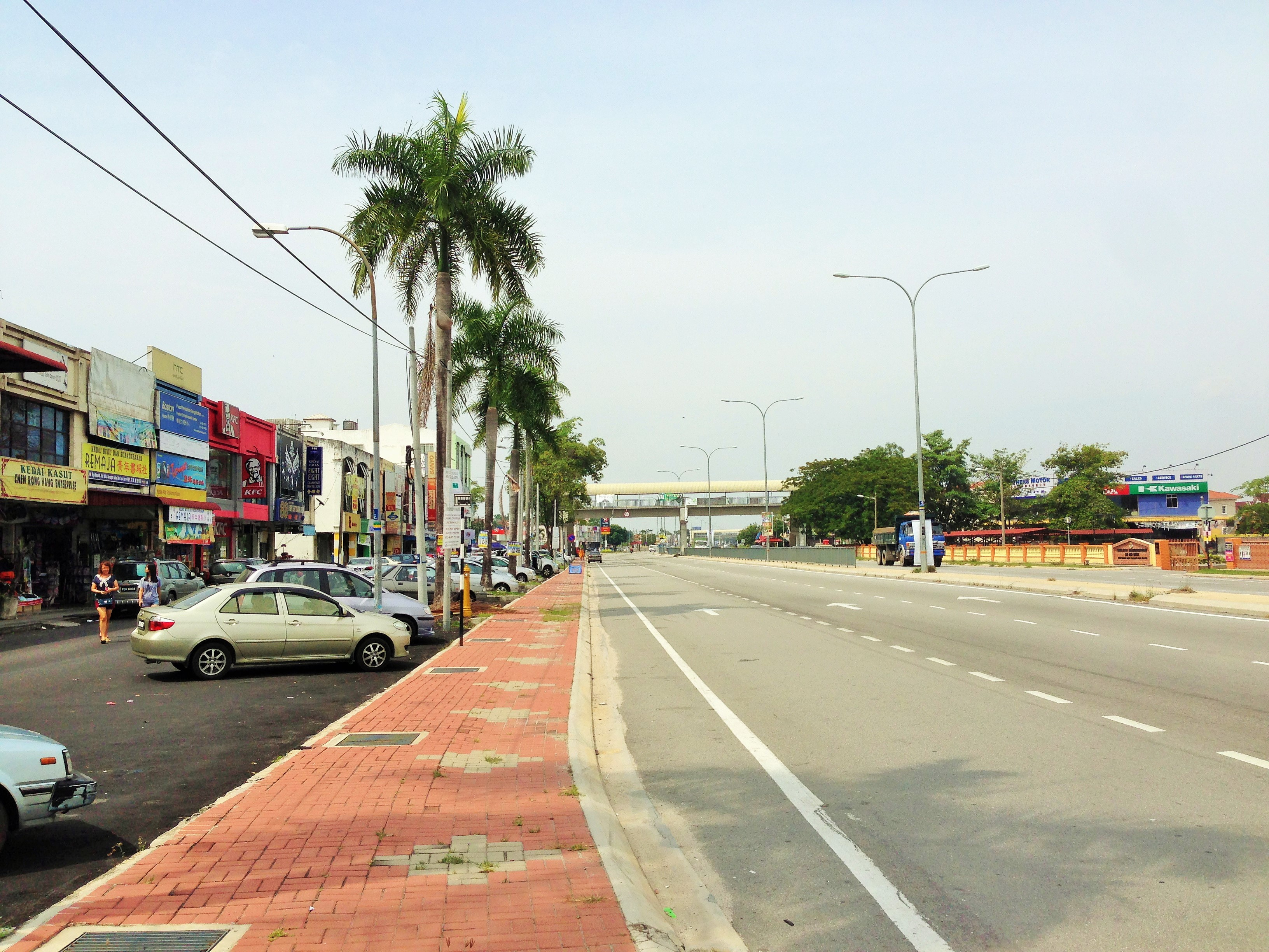 Main road of Simpang Ampat town in Seberang Perai, Penang.